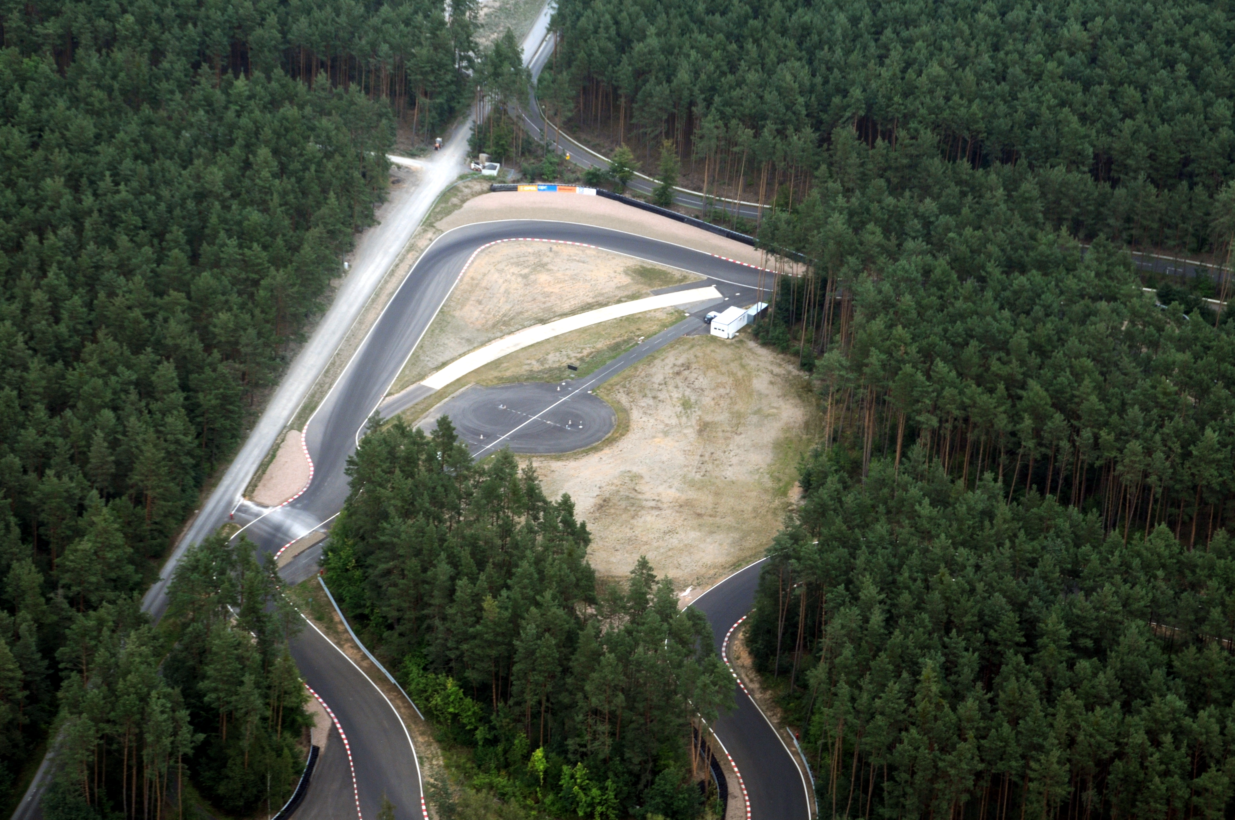 Opel test tracks, Dudenhofen, Rodgau, Hesse, Germany, aerial photograph